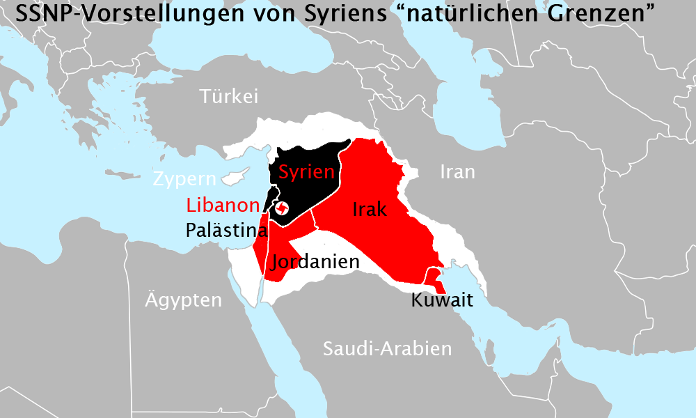 simplification of the "General map of natural Syria" seen on the website of Homs' SSNP branch (Syrian Social Nationalist Party) black - Syria and Lebanon red - other countries of the "Fertile Crescent" (Jordan, Palestine, Iraq with Kuwait) white - claimed terrorities from other neighboured states (Turkey, Iran, Saudi-Arabia, Egypt, Cyprus)